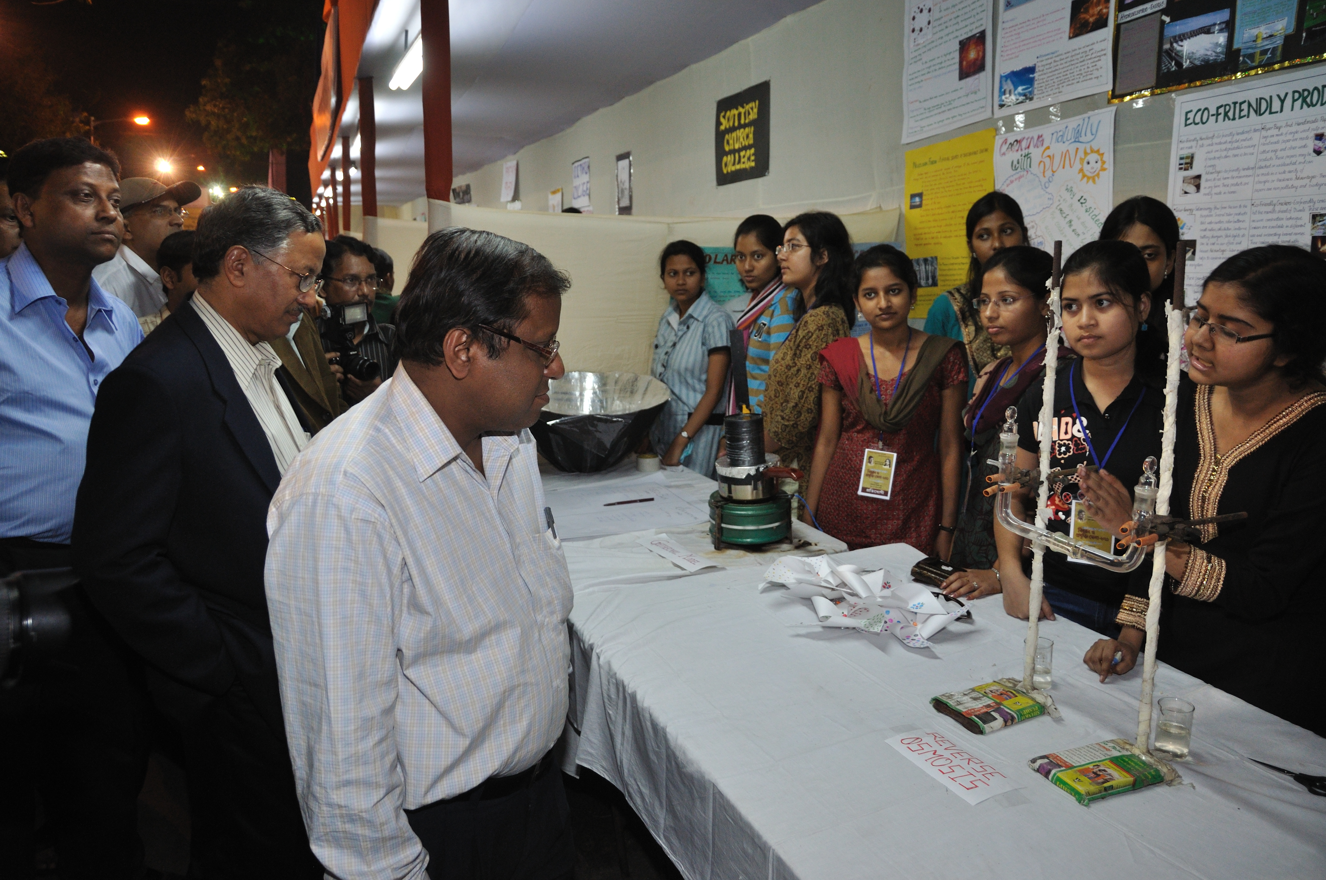 PaschimBanga Vigyan Mancha organised the 'Science & Technology fair - 2011' was held at the Hedua park, Kolkata, from 9th to 13th february, 2011. The fair was innaugurated by Mr. G. S. Rautella, director general, National Council of Science Museums. Dr. Debesh Das, minister-in-Charge, department of Information Technology, Government of West Bengal was also present.